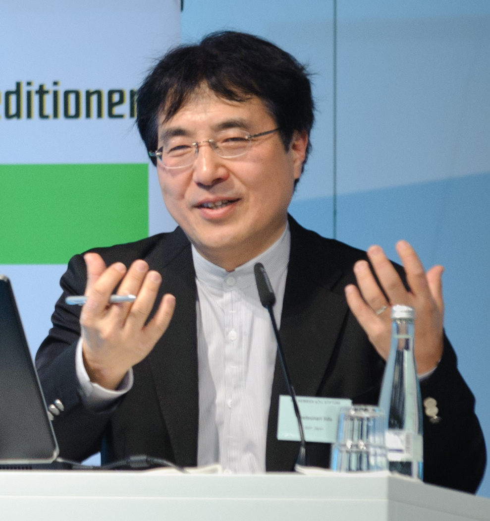 Tetsunari Iida (Executive Director, Inst. for Sustainable Energy Policies, Japan), speaking at exposition "Tschernobyl 25 expeditionen" (archive) in Berlin, Germany